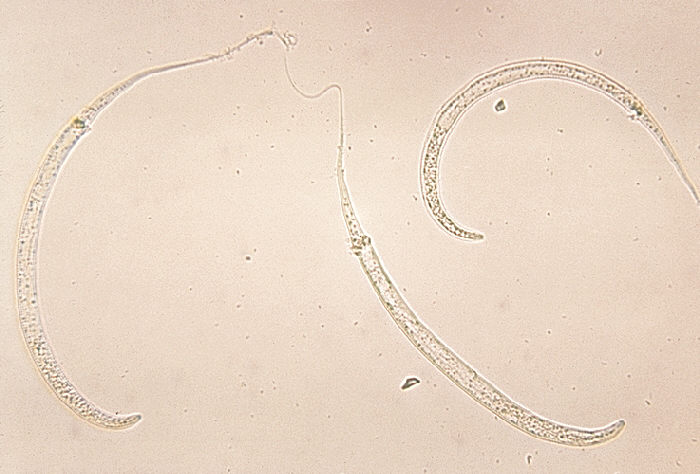 Dracunculus medinensis larvae. Parasite.